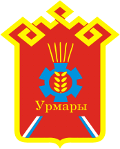 Urmary (Chuvashia), coat of arms